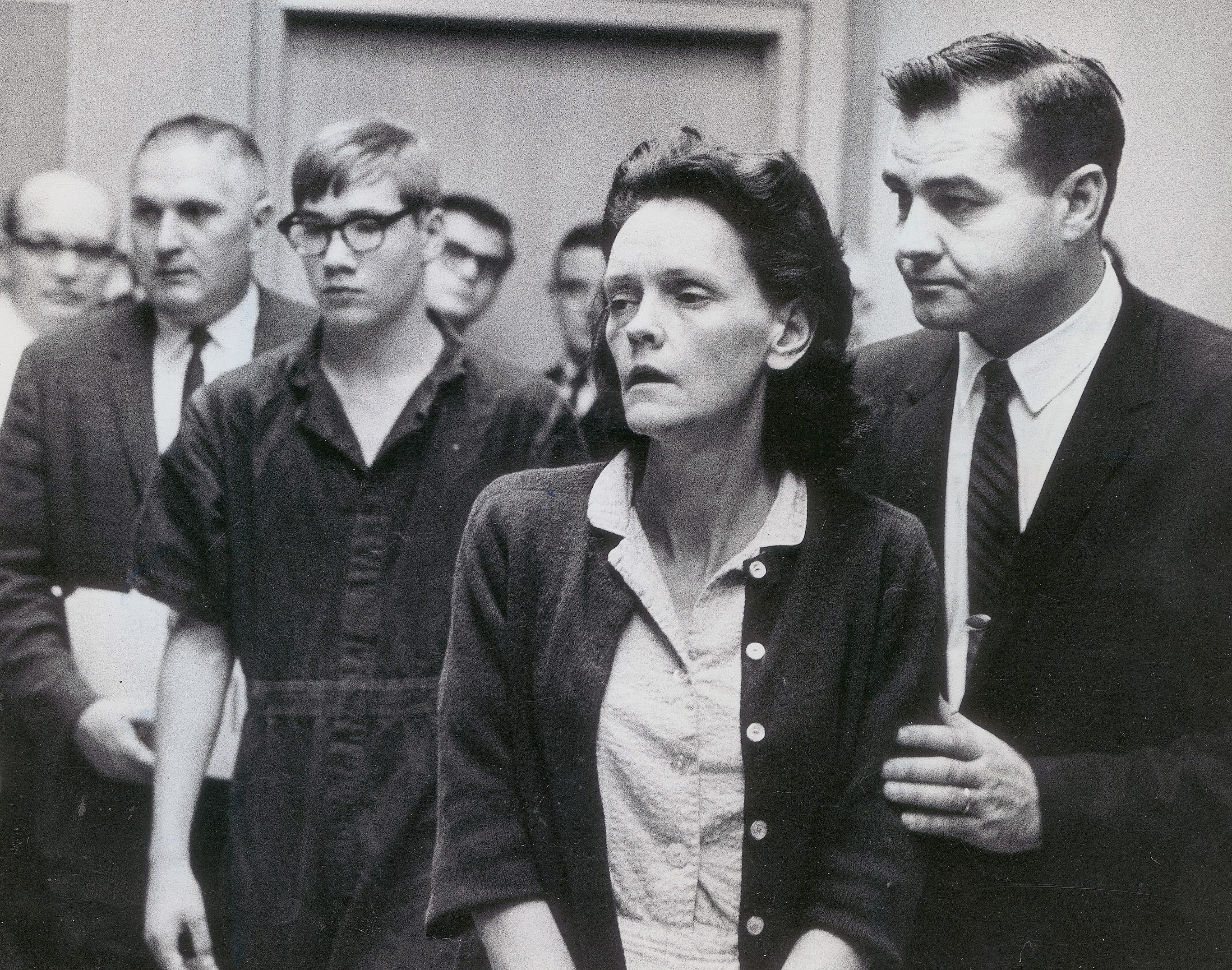 Image depicts Richard D. Hobbs and Gertrude Baniszewski, appearing before Judge Harry Zaklan. November 1, 1965. Published in The Indianapolis News November 2, 1965.